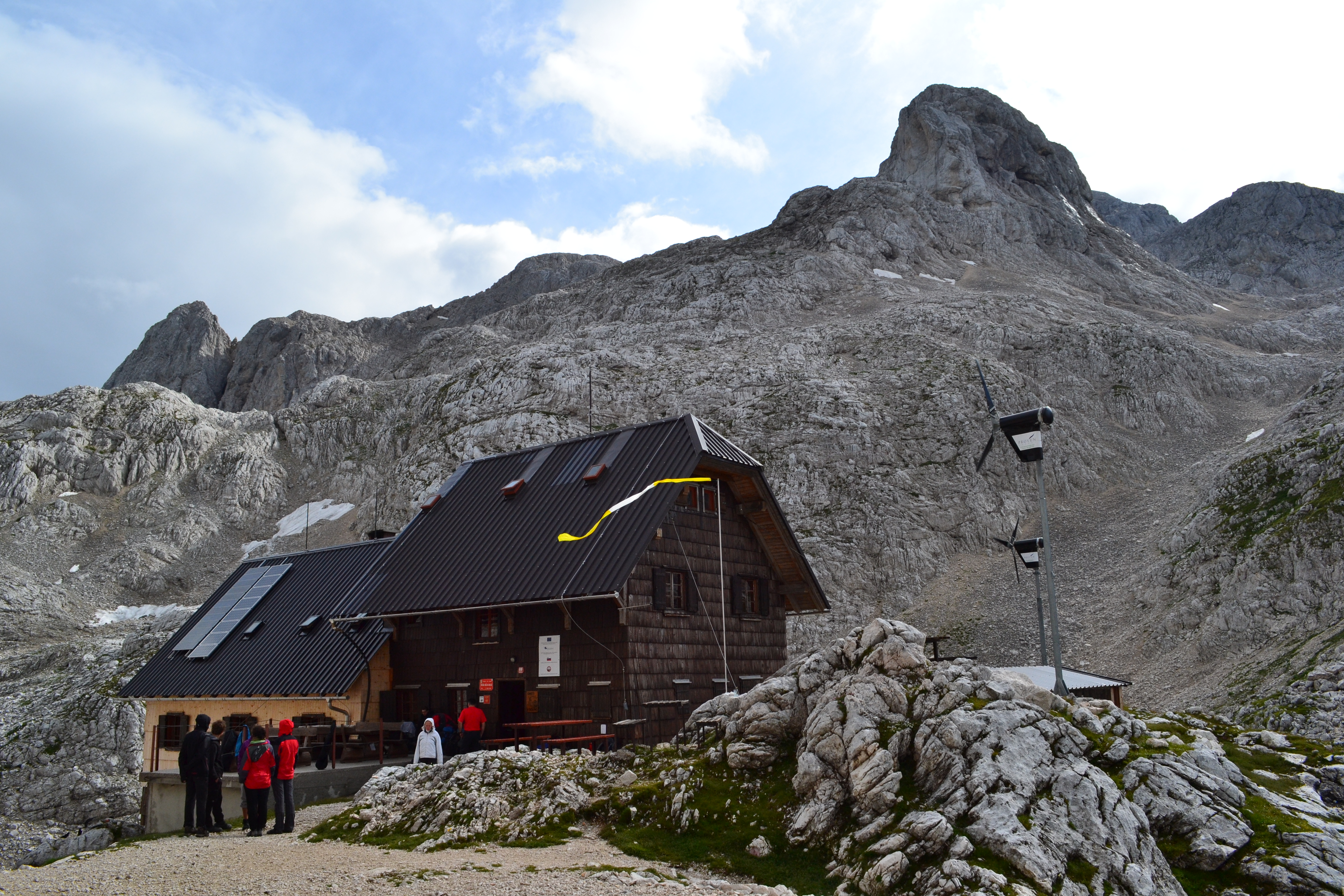 Mountain hut "Tržaška koča na Doliču", Triglav National Park, Julian Alps, Slovenia